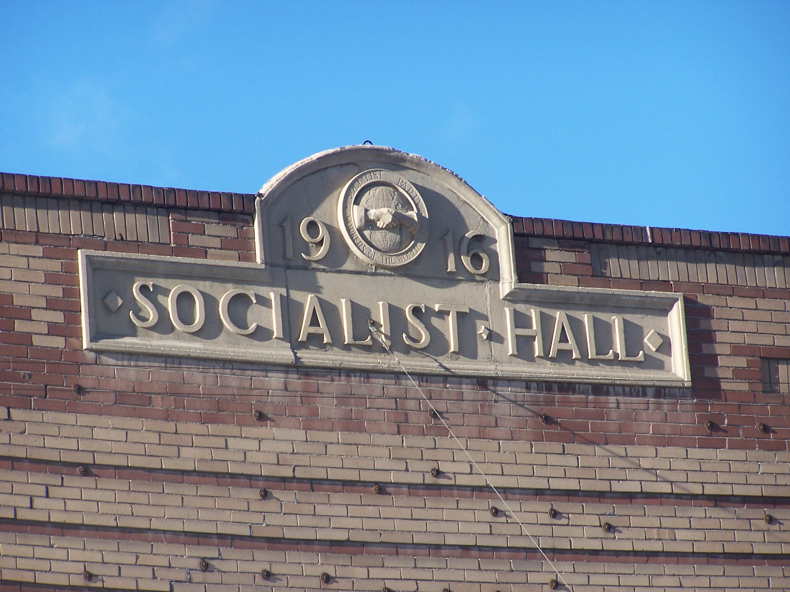 by Richard Gibson